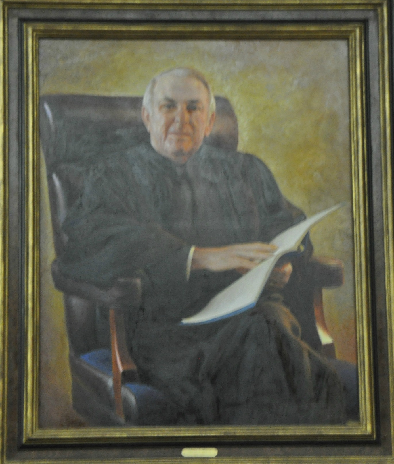 Abner Joseph Mikva United States Circuit Judge